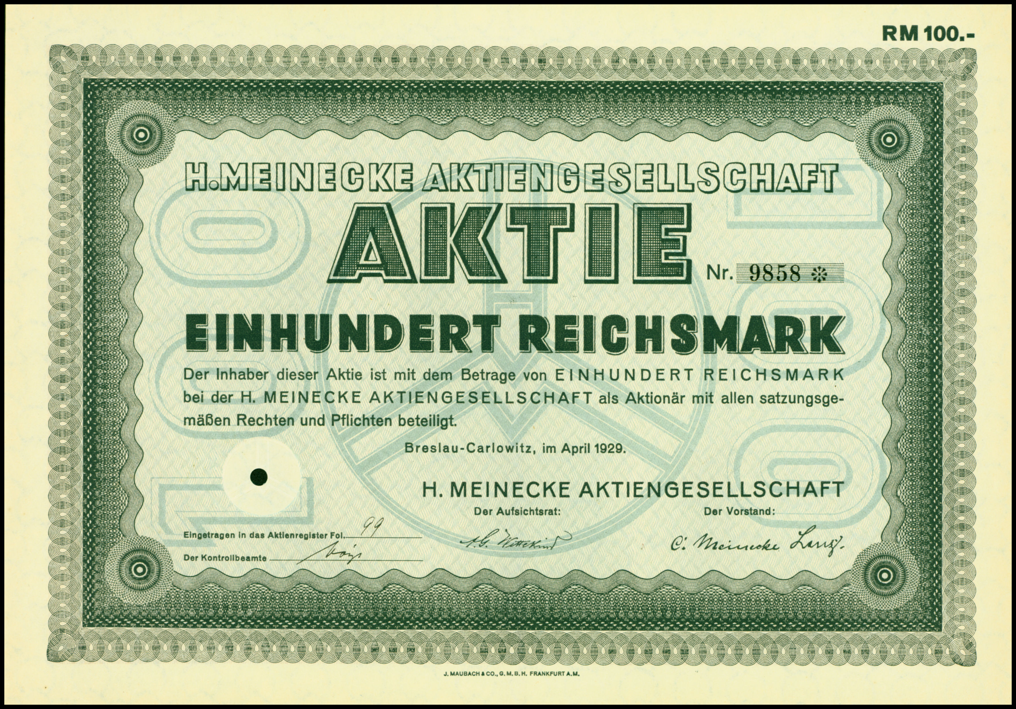 Share of the H. Meinecke AG, issued April 1929